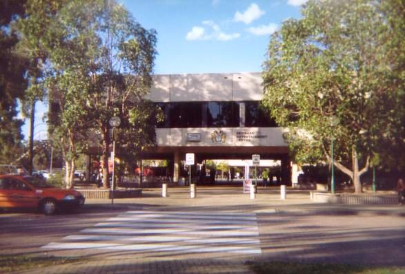 Boondall Entertainment Centre ( this photograph was taken by Figaro )